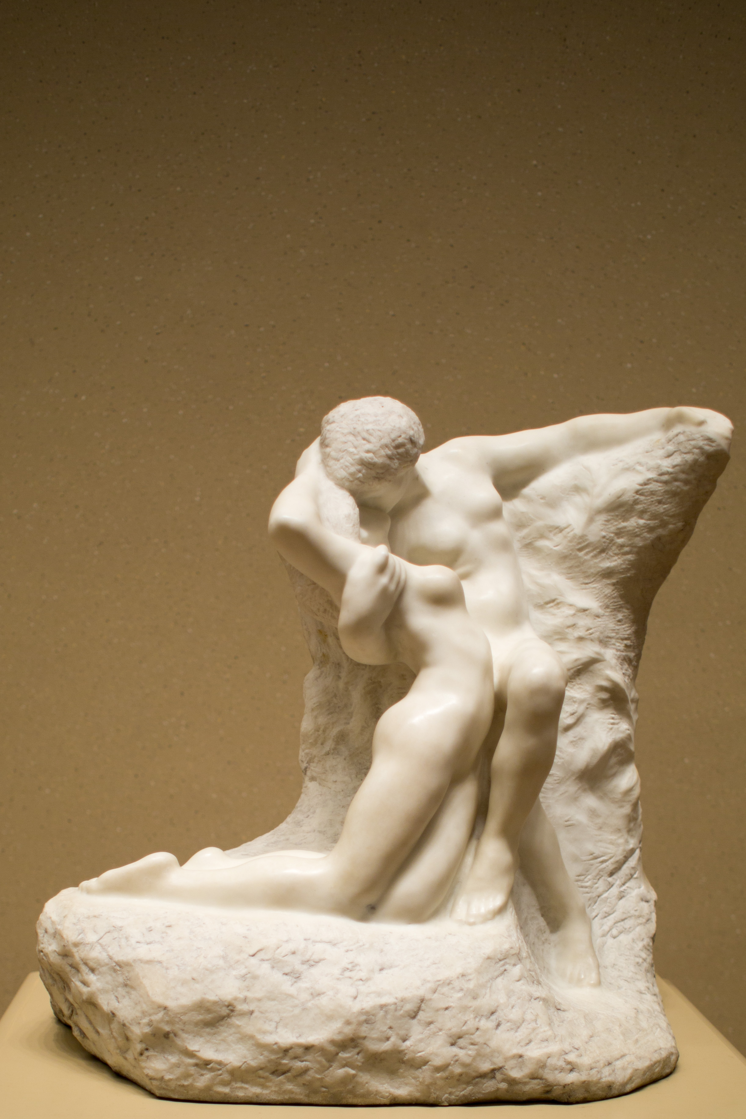 Rodin Sculpture, Metropolitan Museum of Art NYC